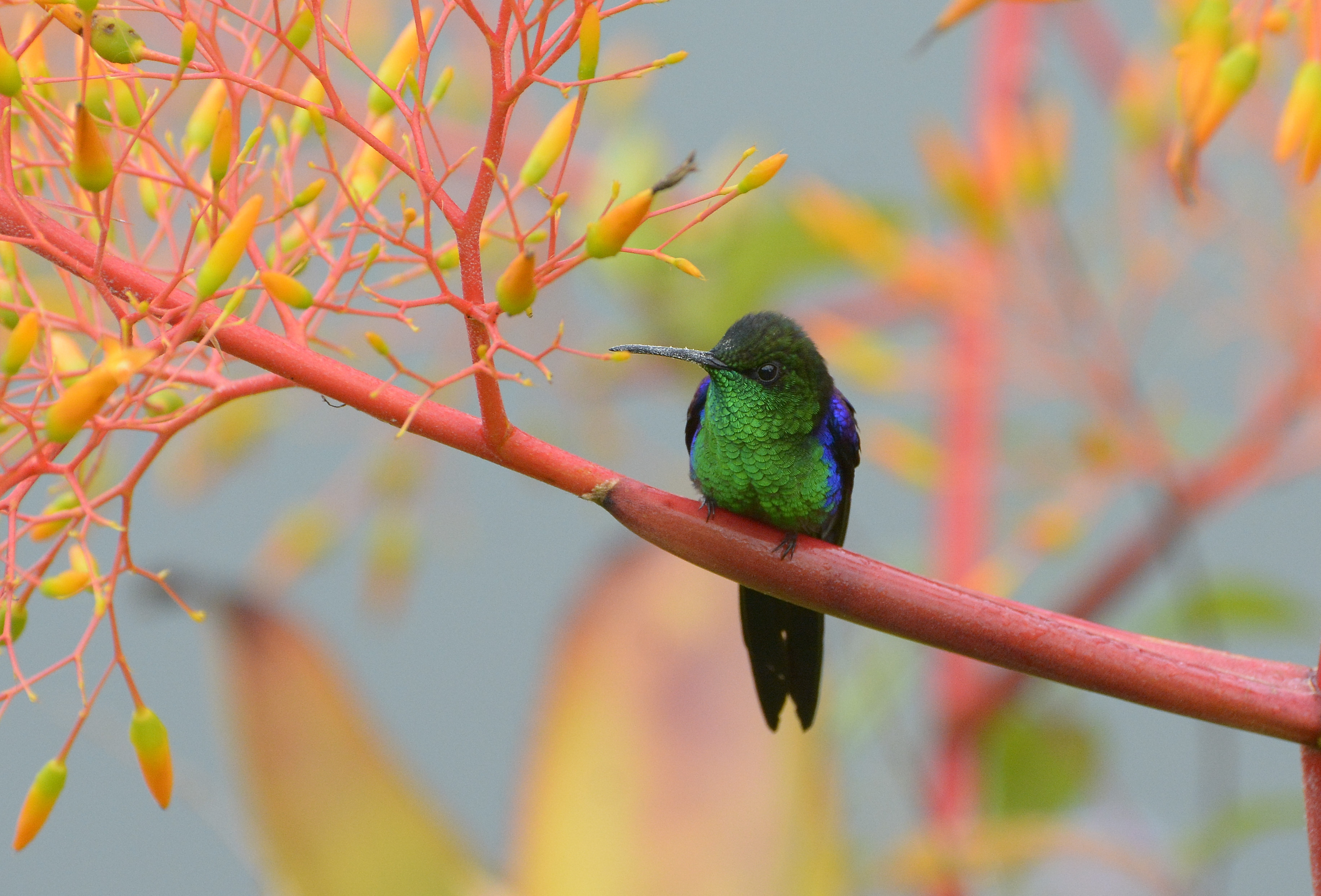 Long-tailed Woodnymph